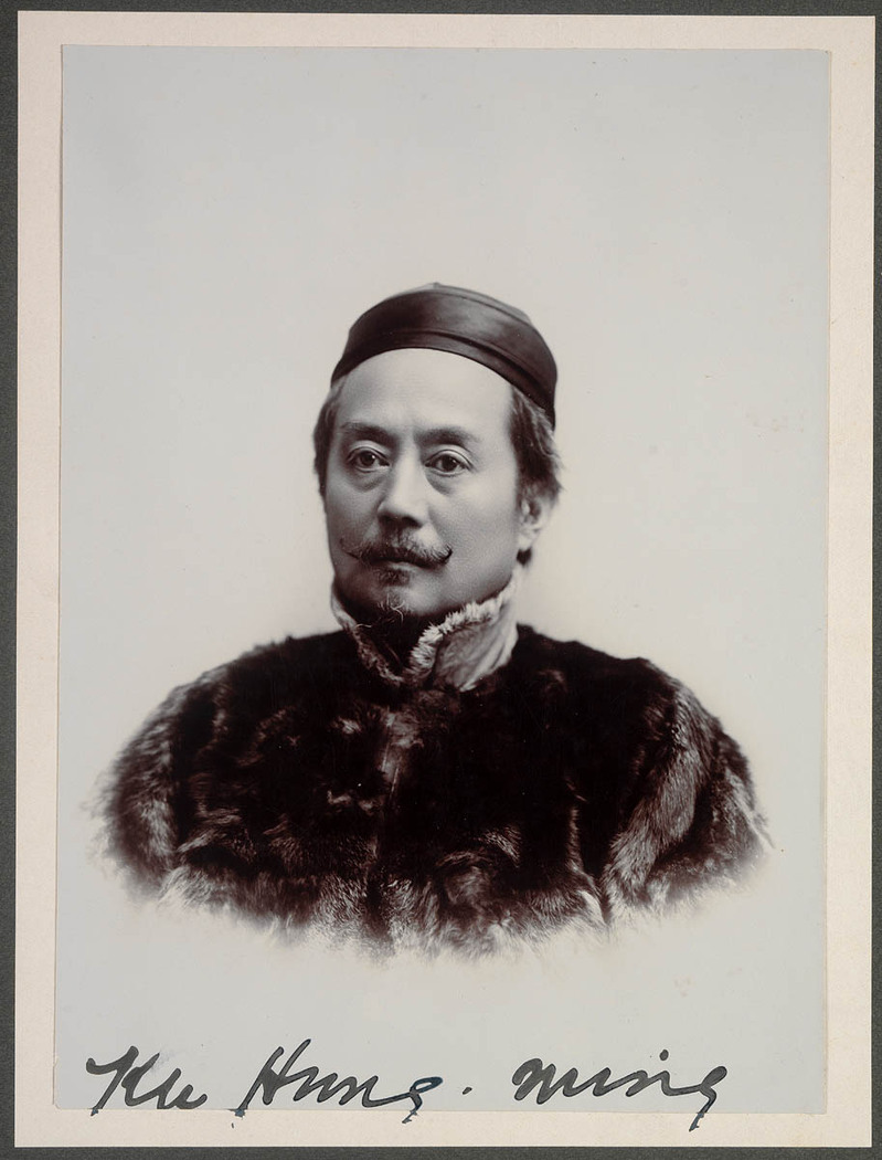 Gu Hongming, Chinese man of letters, c. 1917, George Ernest Morrison collection, State Library of New South Wales, PX*D 156 / vol. 2